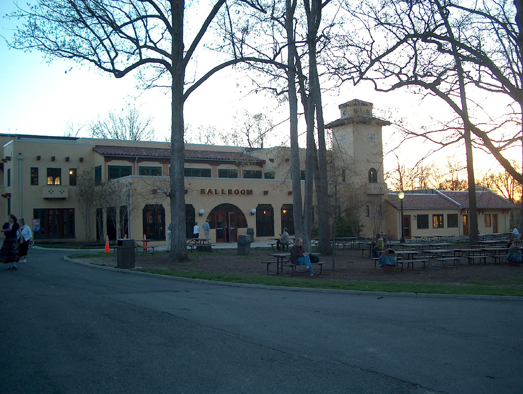 The Spanish Ballroom at Glen Echo Park, Maryland, U.S.A.